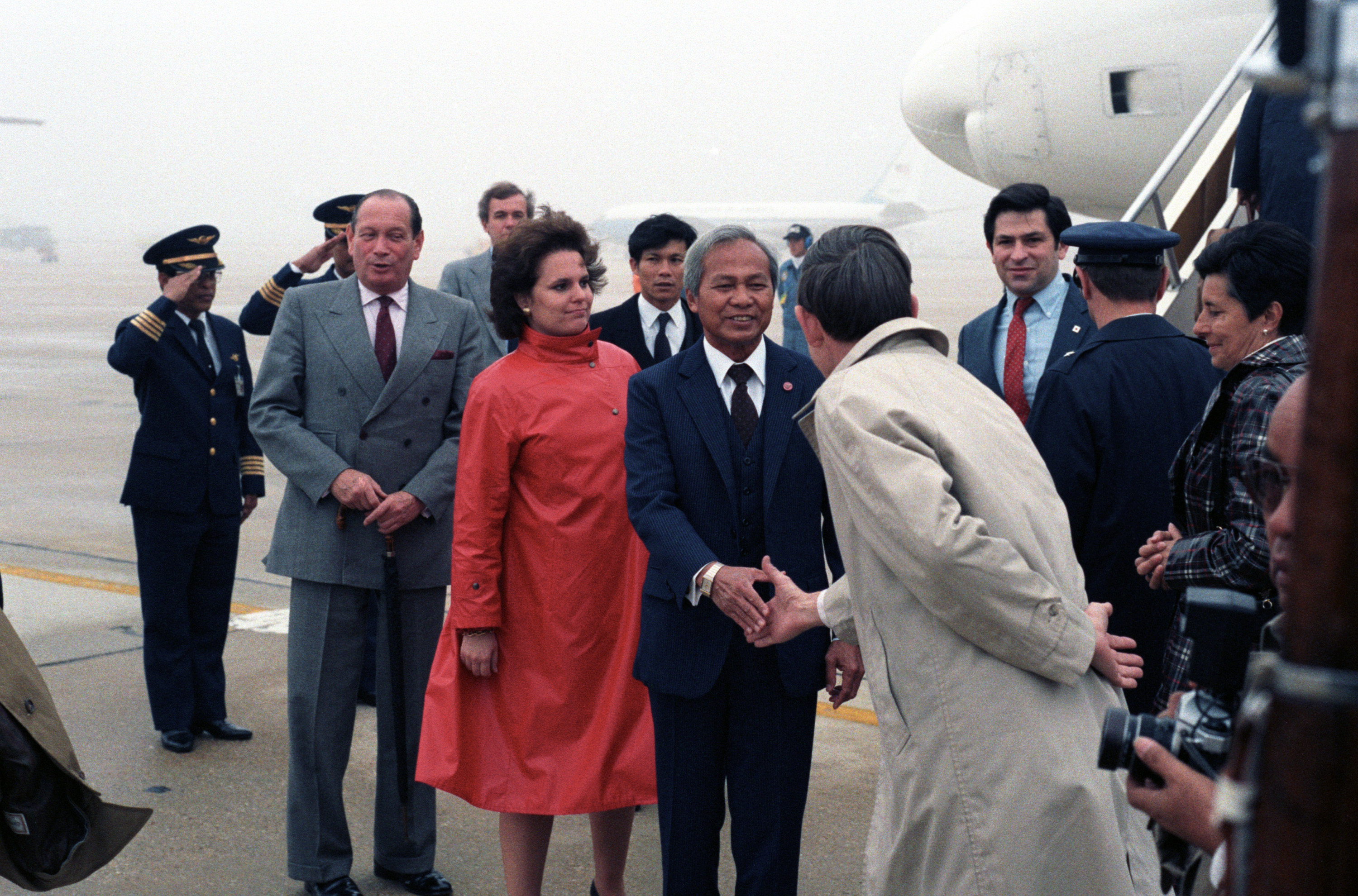 Prime Minister Prem Tinsulanonda of Thailand prepares to depart the United States after a recent state visit. Location: Andrews Air Force Base, Maryland, United States ID: DF-SC-85-12080 Service Depicted: Multi-National